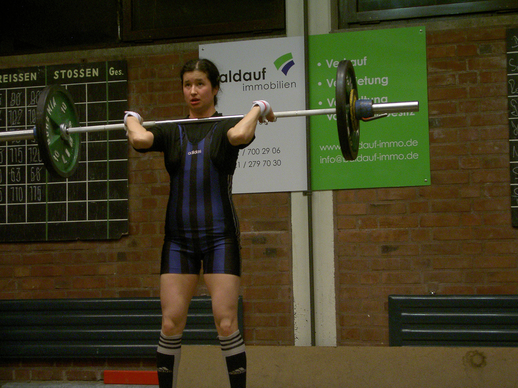 Weightlifting. Clean and jerk (first part = clean)